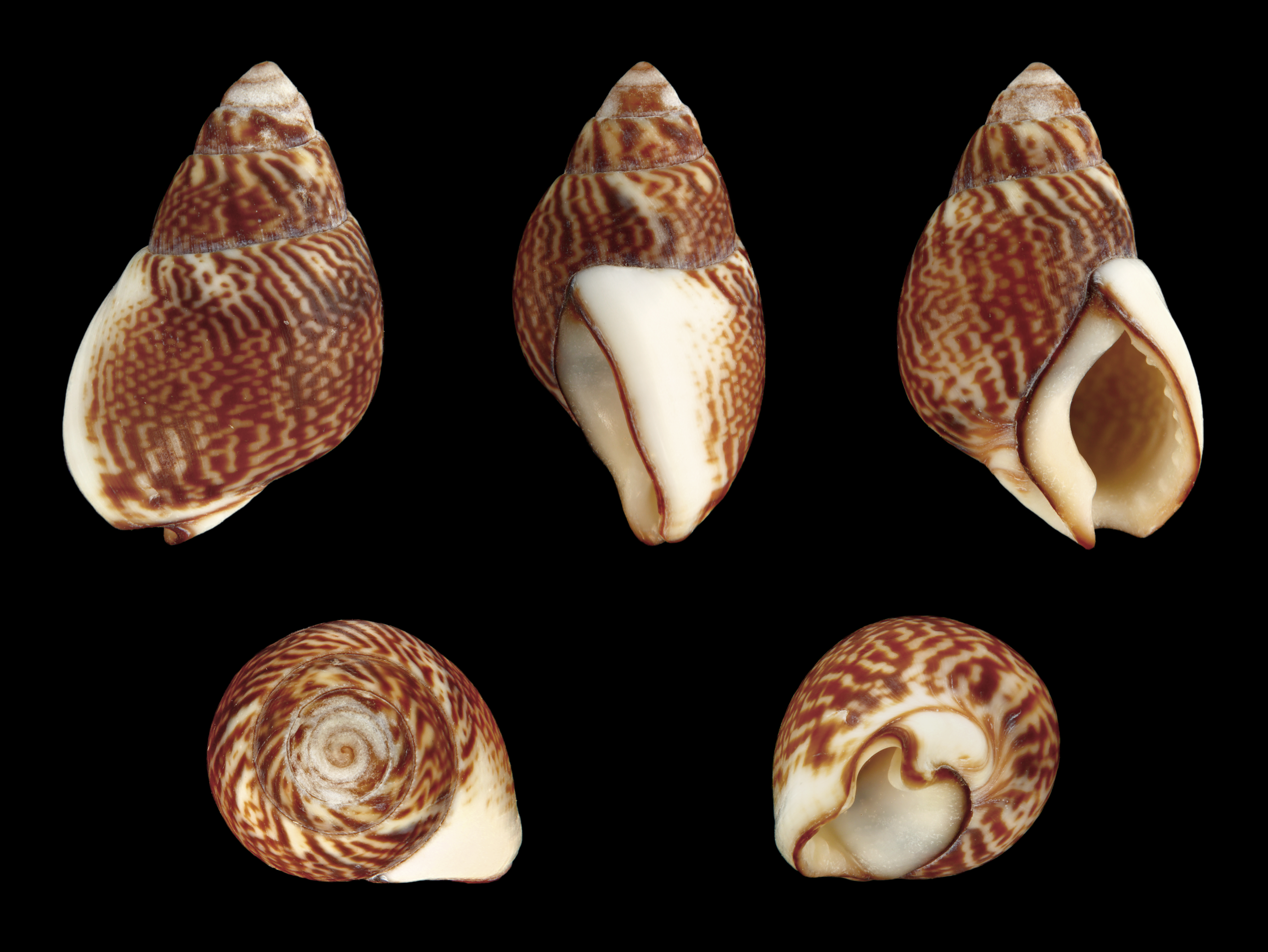 Length 1.3 cm; Originating from Falcon, 200 km south of Dakhla, Western Sahara; Shell of own collection, therefore not geocoded. Dorsal, lateral (right side), ventral, back, and front view.